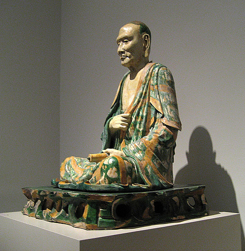 side image of the Chinese Luohan, Yixian, Hebei Province, China